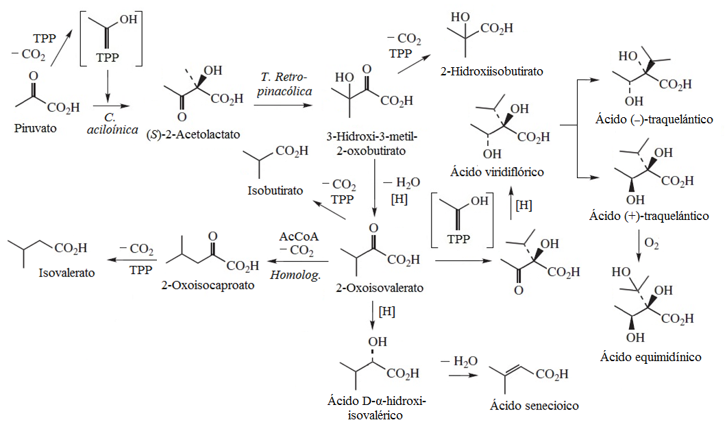 Necic acids biosynthesis: derivatives from pyruvic acid